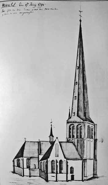 A 1791 drawing of the Oude Toren (Old Tower) (then still the St. Petrus church) in the Dutch city Eindhoven, with the original high steeple.